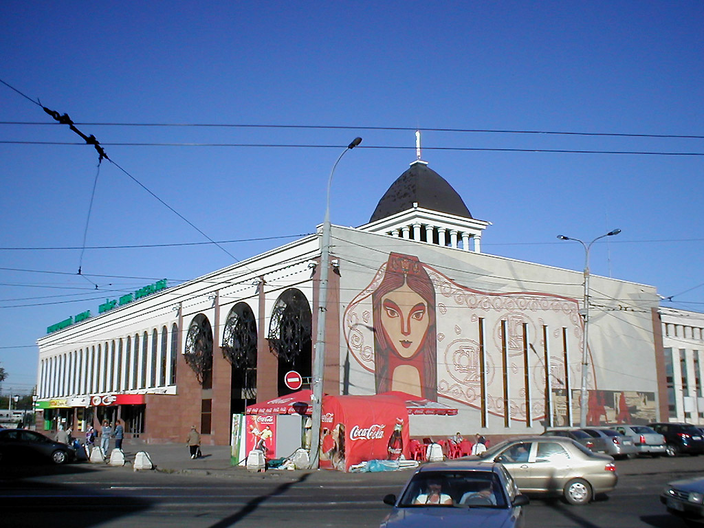 Suburban building of railstation in Kazan